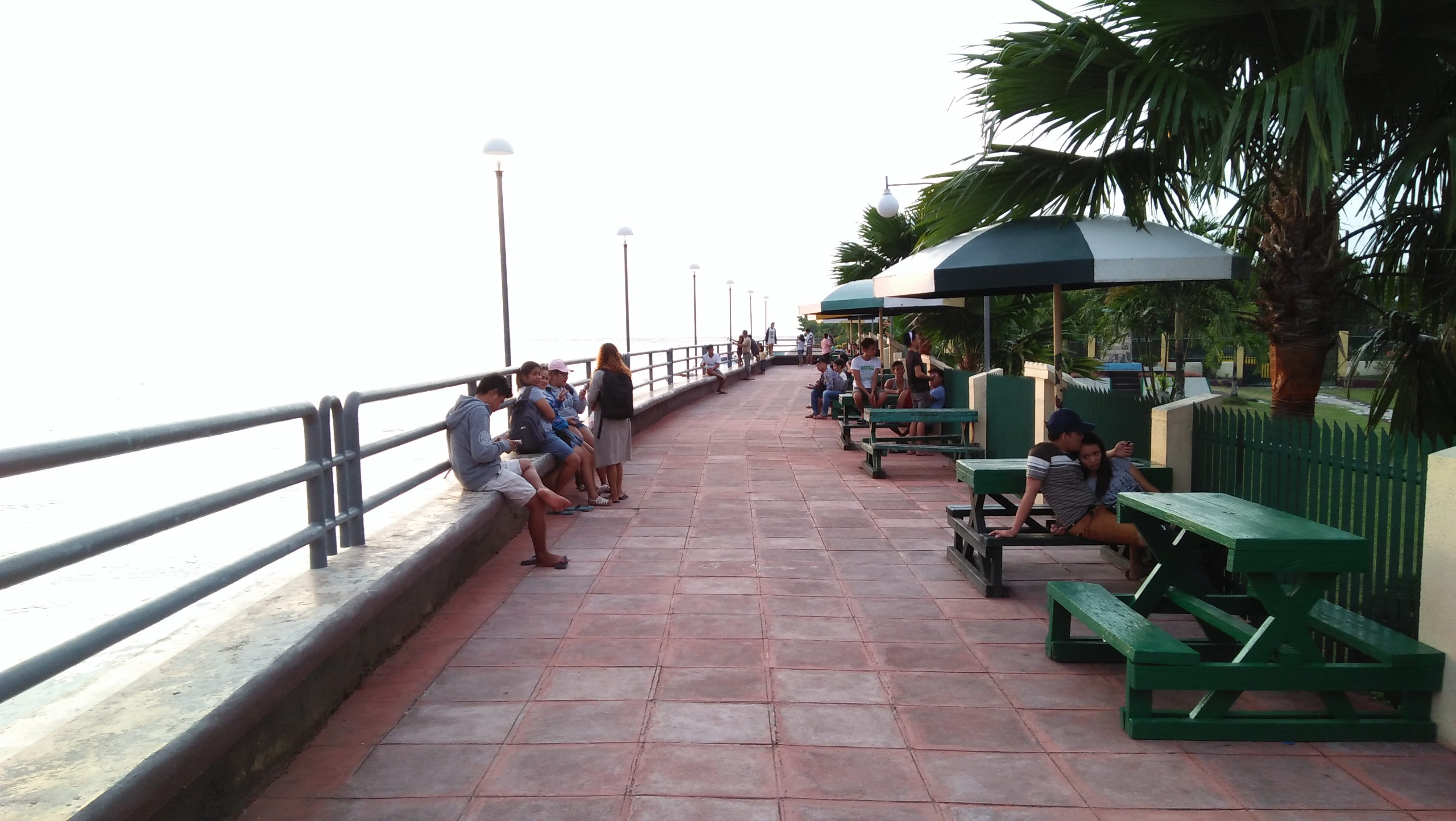 This photo was uploaded via mobile. The view of Magallanes Bay Walk as of September 2, 2018.